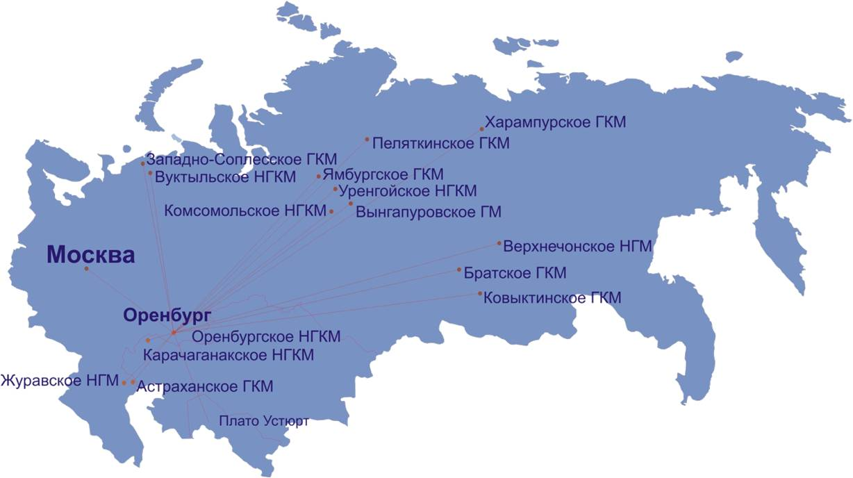 Geography Vunipigaz